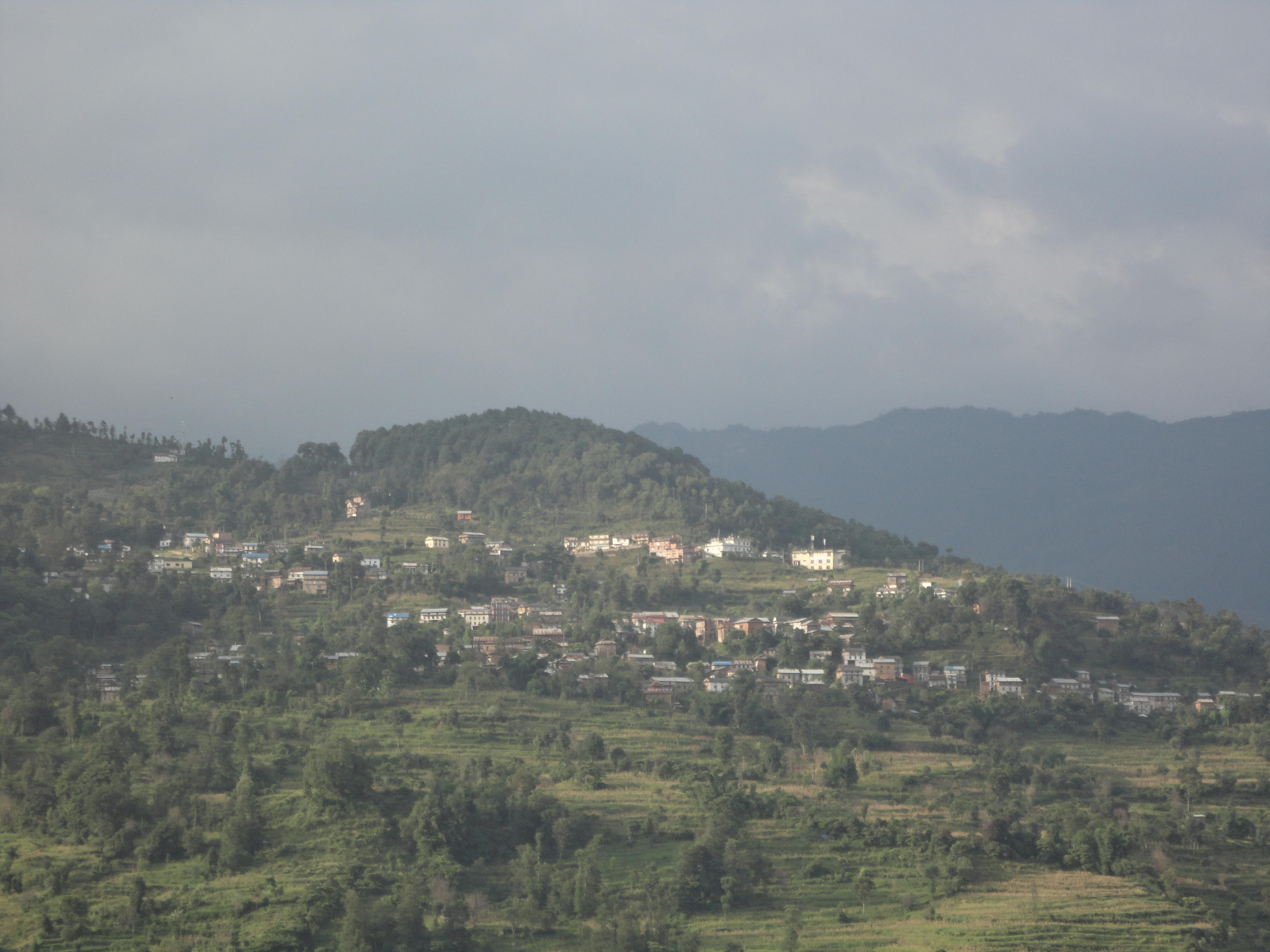 Dolakha Bazar (historical town )